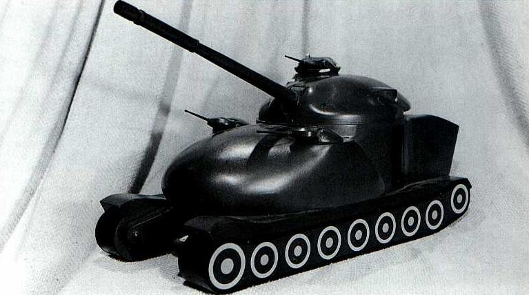 Model of a TV-1 nuclear-powered tank concept, presented an Question Mark III conference